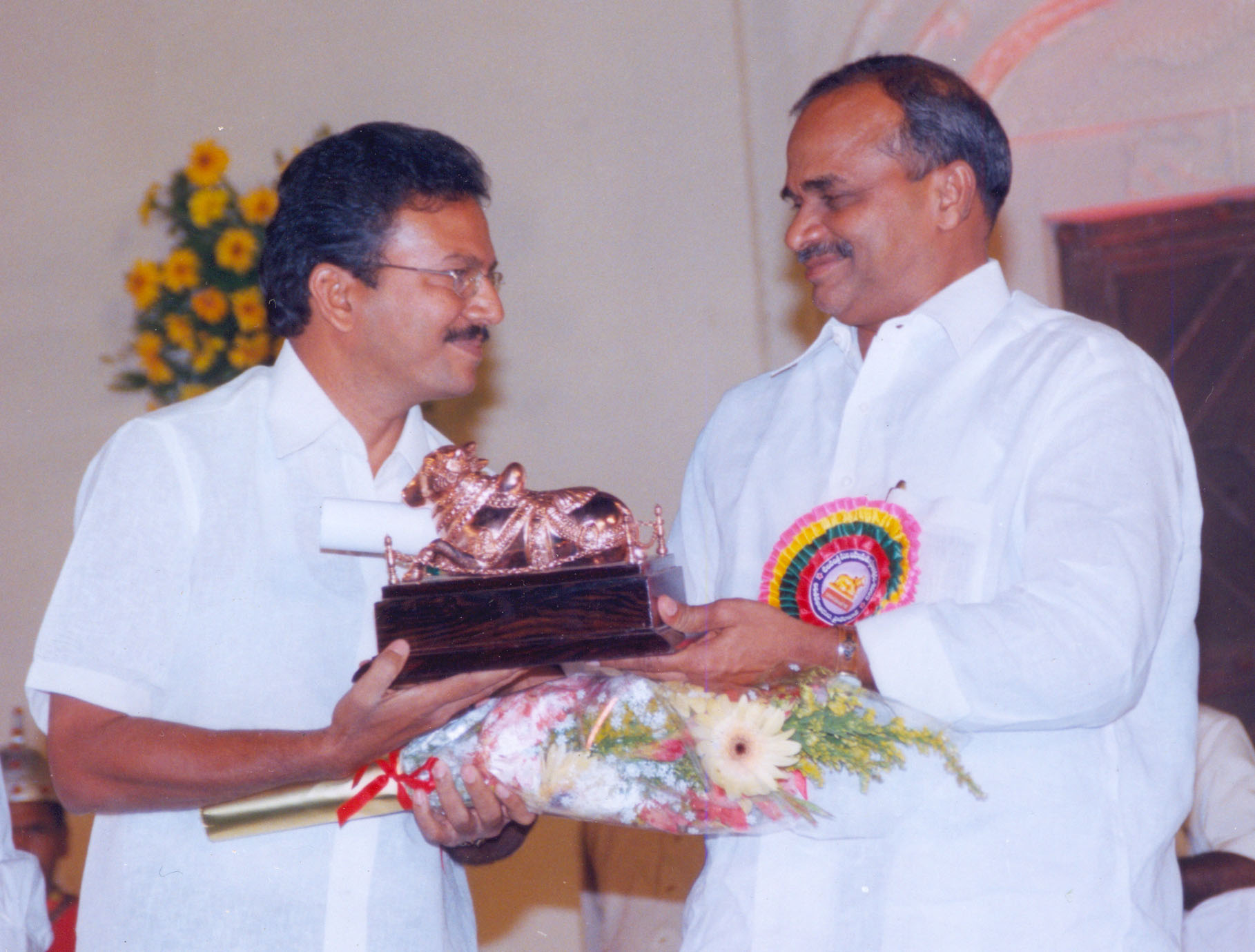 Young and dynamic Mr. J Subba Rao the proud producer of the masterly film SATTA (The Strength) receiving the prestigeous outstanding film award from Dr. Y. S. Rajasekhar Reddy, Hon'ble Former Cheif Minister, Government of Andhra Pradesh, India